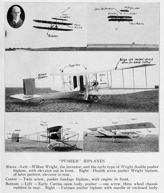 Wilbur Wright pusher biplanes